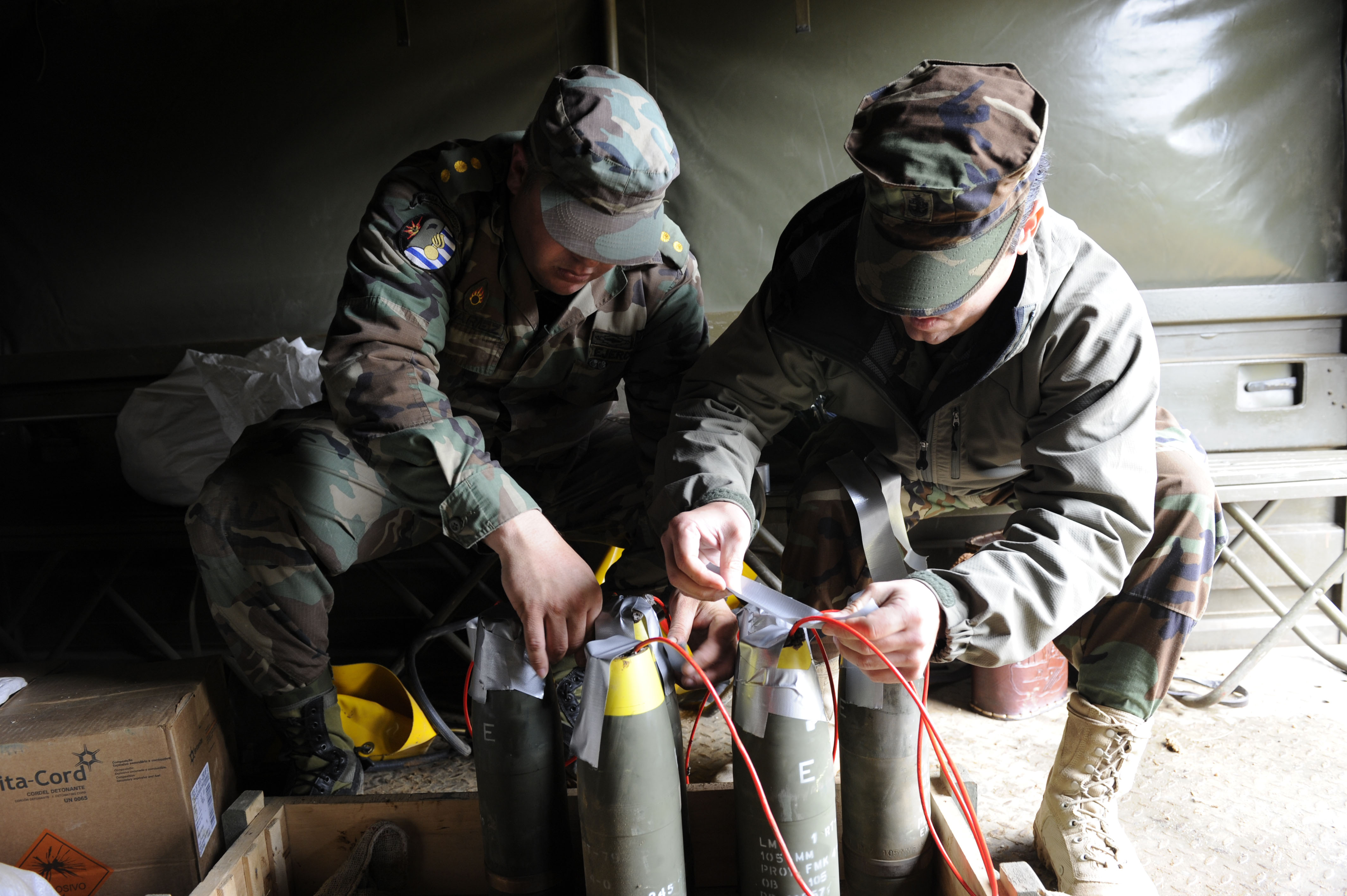 MINAS, Uruguay (Nov. 16, 2010) A Uruguayan army explosive ordnance disposal officer, left, and U.S. Navy Senior Chief Explosive Ordnance Disposal Technician Chad L. Harris, from Green Bay, Wis., daisy-chain a series of 105 mm artillery projectiles using C4 explosive and red detonating cord during a training field exercise as part of a three-week training course coordinated by the Maritime Civil Affairs and Security Training Command (MCAST). MCAST delivers teams of highly skilled U.S. Navy Sailors to share expertise with partner nations to strengthen international relationships. (U.S. Navy photo by Mass Communication Specialist 1st Class Peter D. Lawlor/Released)